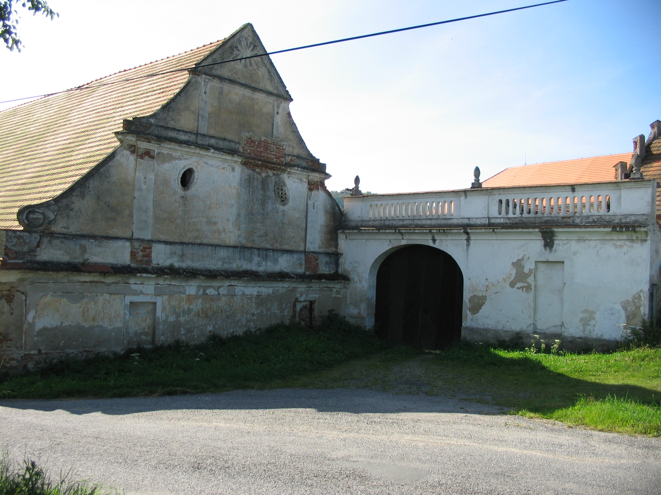 Castle in Tažovice, Strakonice District, Czech Republic